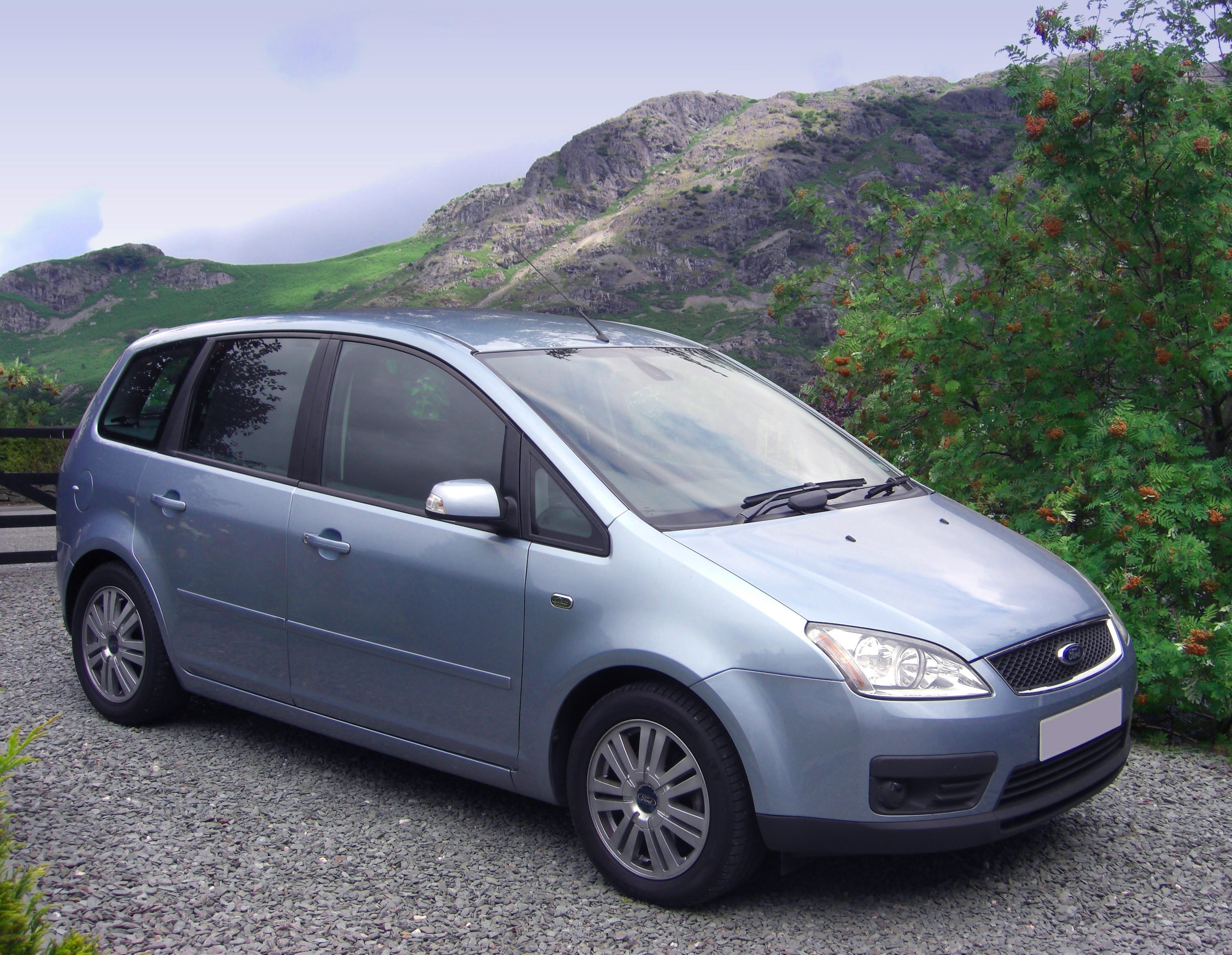 2003 UK specification Ford Focus C-Max, Ghia trim level.